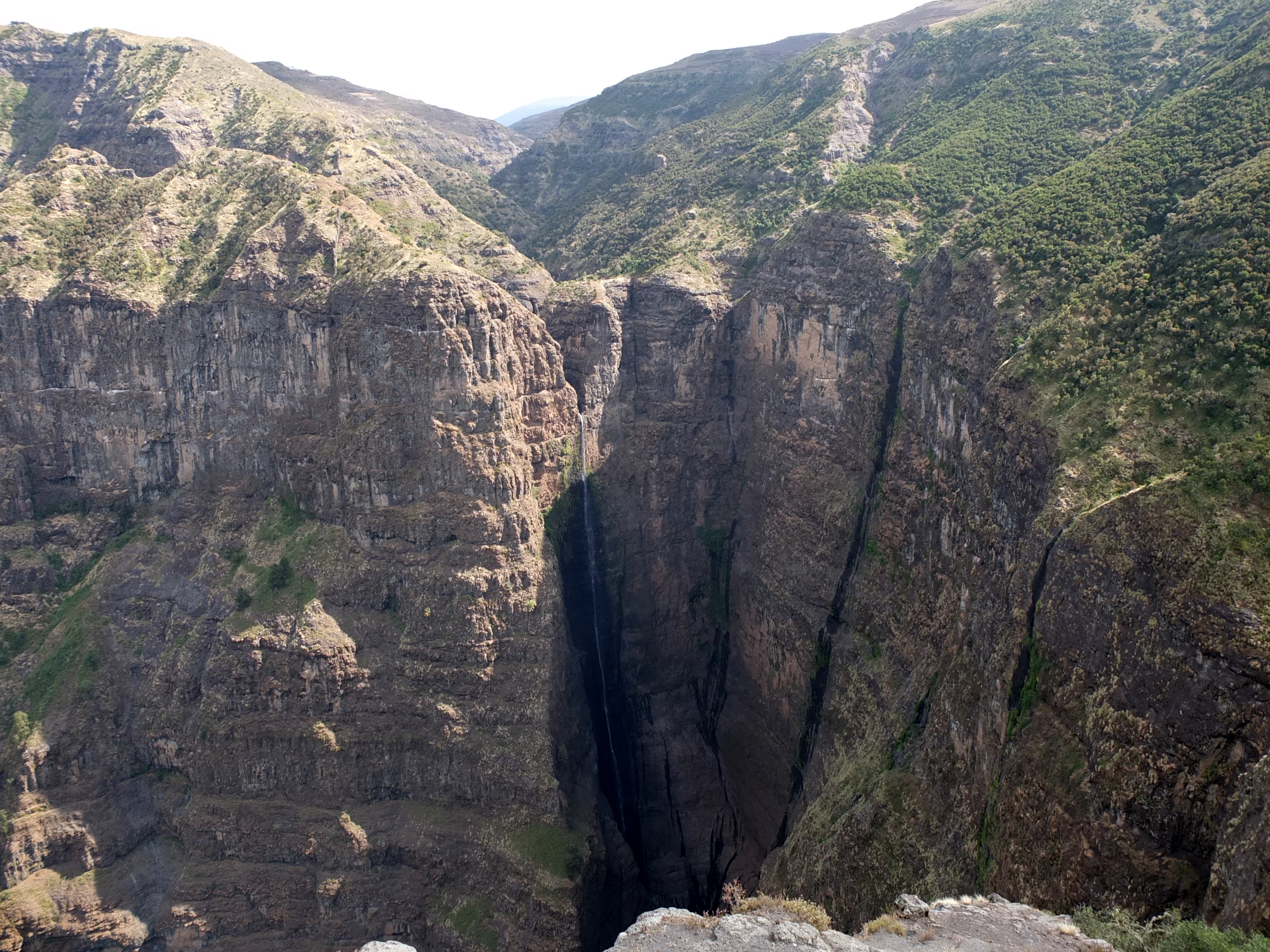 Jinbar Waterfall, Simien National Park, Ethiopia